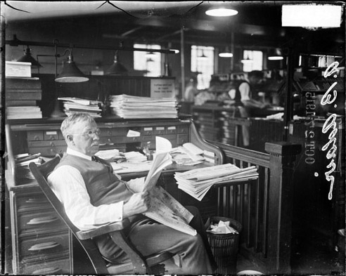 Photographic portrait of A. B. Blair of The Chicago Daily News, sitting at a rolltop desk and reading a newspaper in the offices of The Daily News in Chicago. In the background of the newsroom are visible men working at typeset trays in the background.